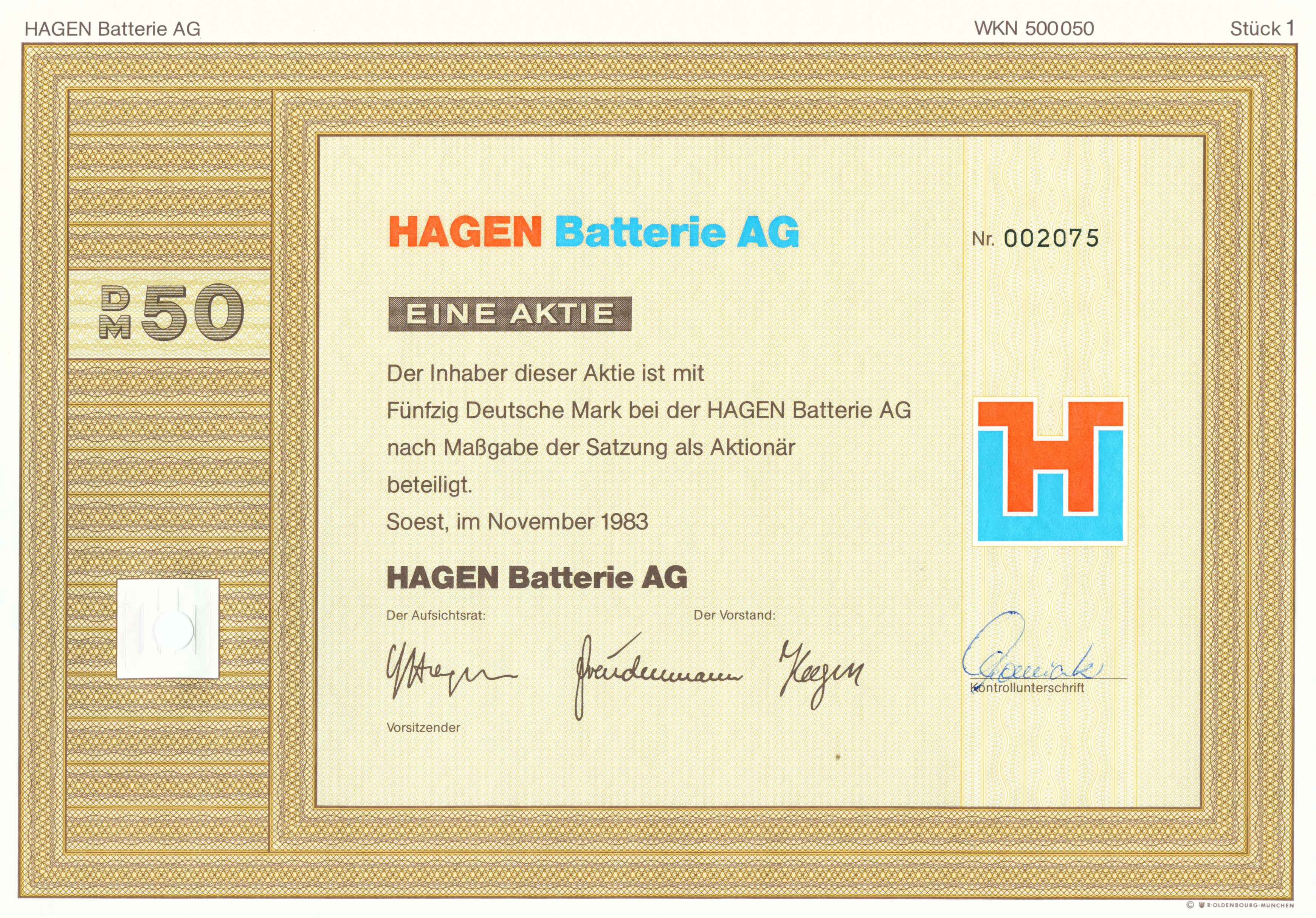 Stock certificate of the german company HAGEN Batterie AG from the year 1983